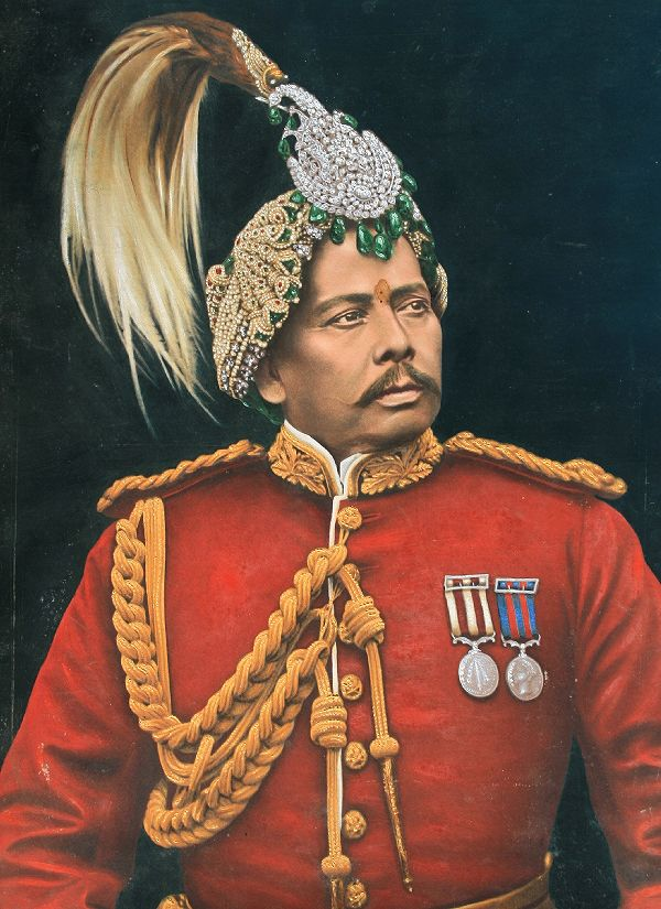 Dhir Shamsher Rana (1828-1884), a lifetime painting of Commander-in-Chief of the Nepalese Army